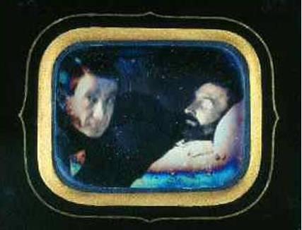 Dodero_Homme_au_chevet_d’un_homme_mort.jpg